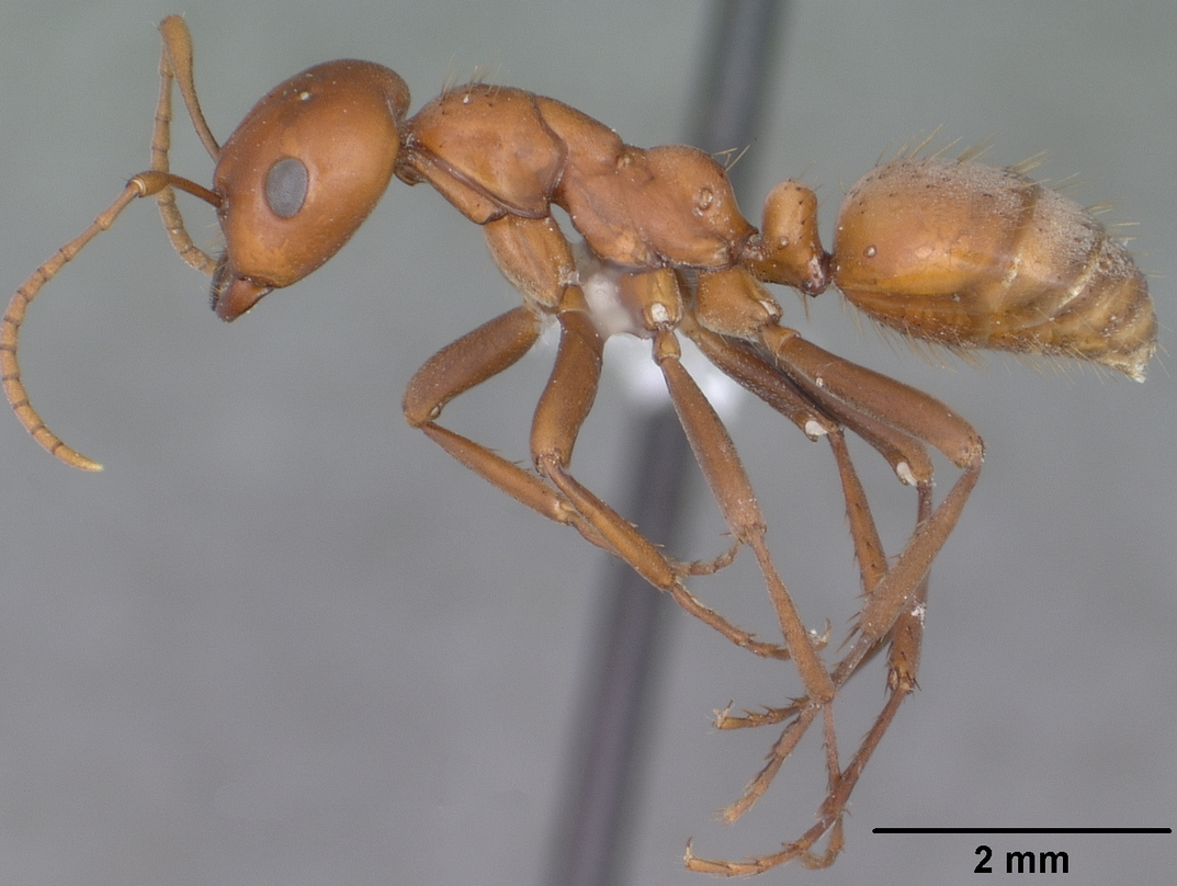 Profile view of ant Polyergus breviceps specimen casent0102822.